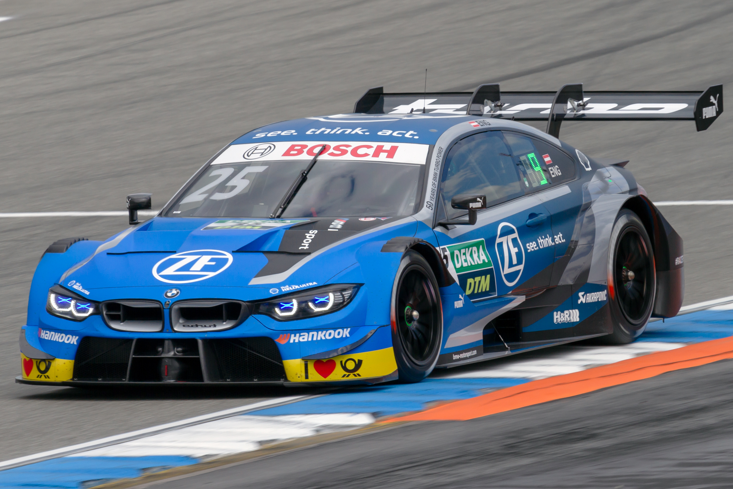 2019 DTM Hockenheimring (May): BMW M4 Turbo DTM of Philipp Eng